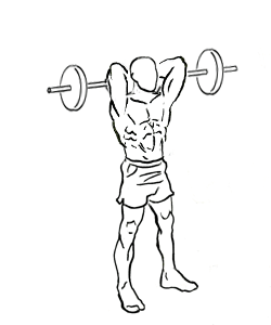 an exercise of triceps